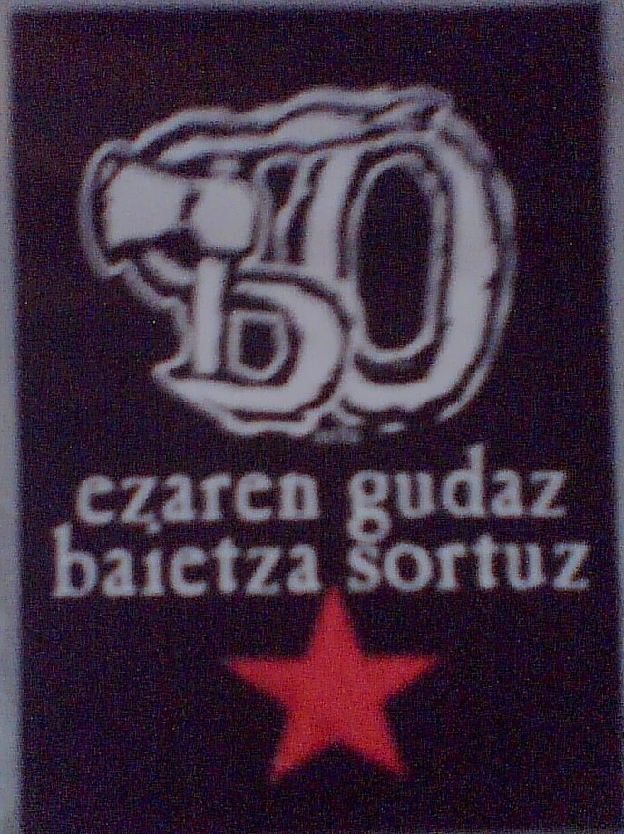 Sticker of terrorist band ETA, photographed in Orereta (Gipuzkoa, Basque Country) in July 2009. It has the anagram of ETA (axe and snake) inside the number 50, this makes to think that the stiker is from 2009, 50th anniversary of the foundation of ETA. It says: "Ezaren gudaz, baitetza sortuz", translated literally to English would be: "Buinding yes, with the war of the no". It might mean that ETA uses any social movement that is against the actual politic regime (the war of no), canalizing thin energy to build a marxist independent state in the Basque Country (build the yes).